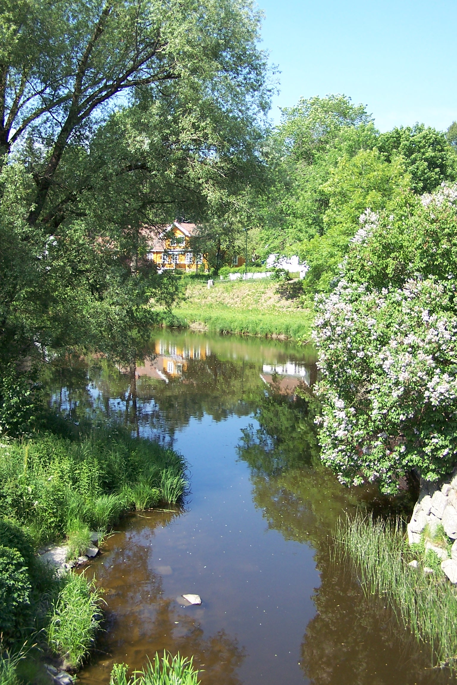 Hølen, River Såna (locally known as Hølenselva flowing through the centre of the village